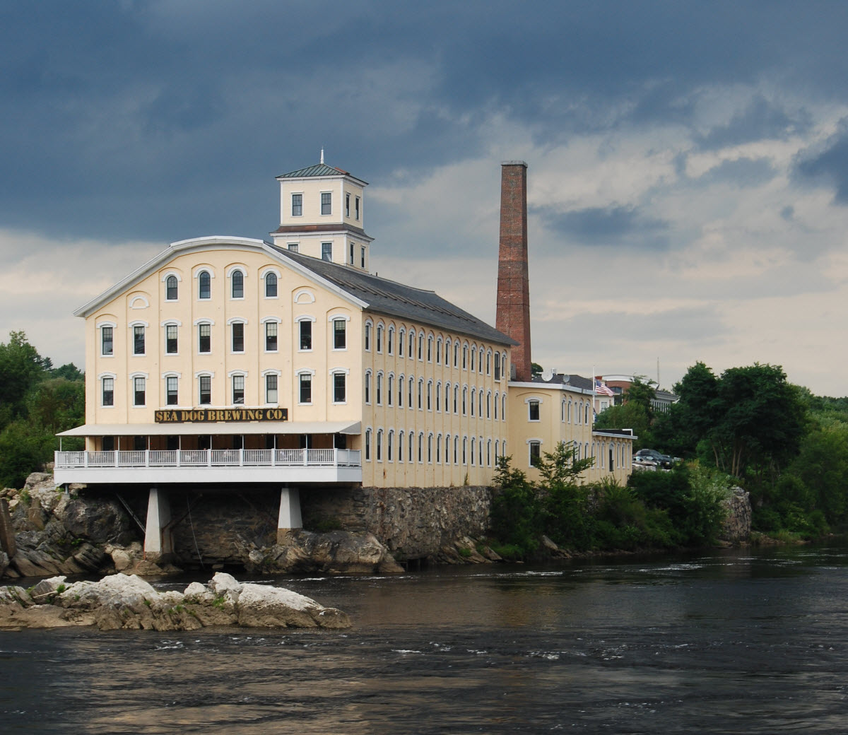 Pejepscot Paper Mill, Topsham, Maine (also known as Bowdoin Mill)